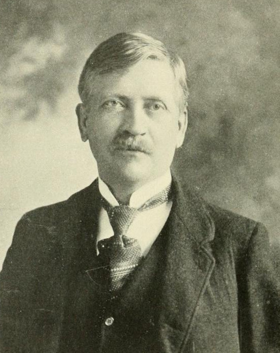 Portrait of Senator Lucien Baker of Kansas